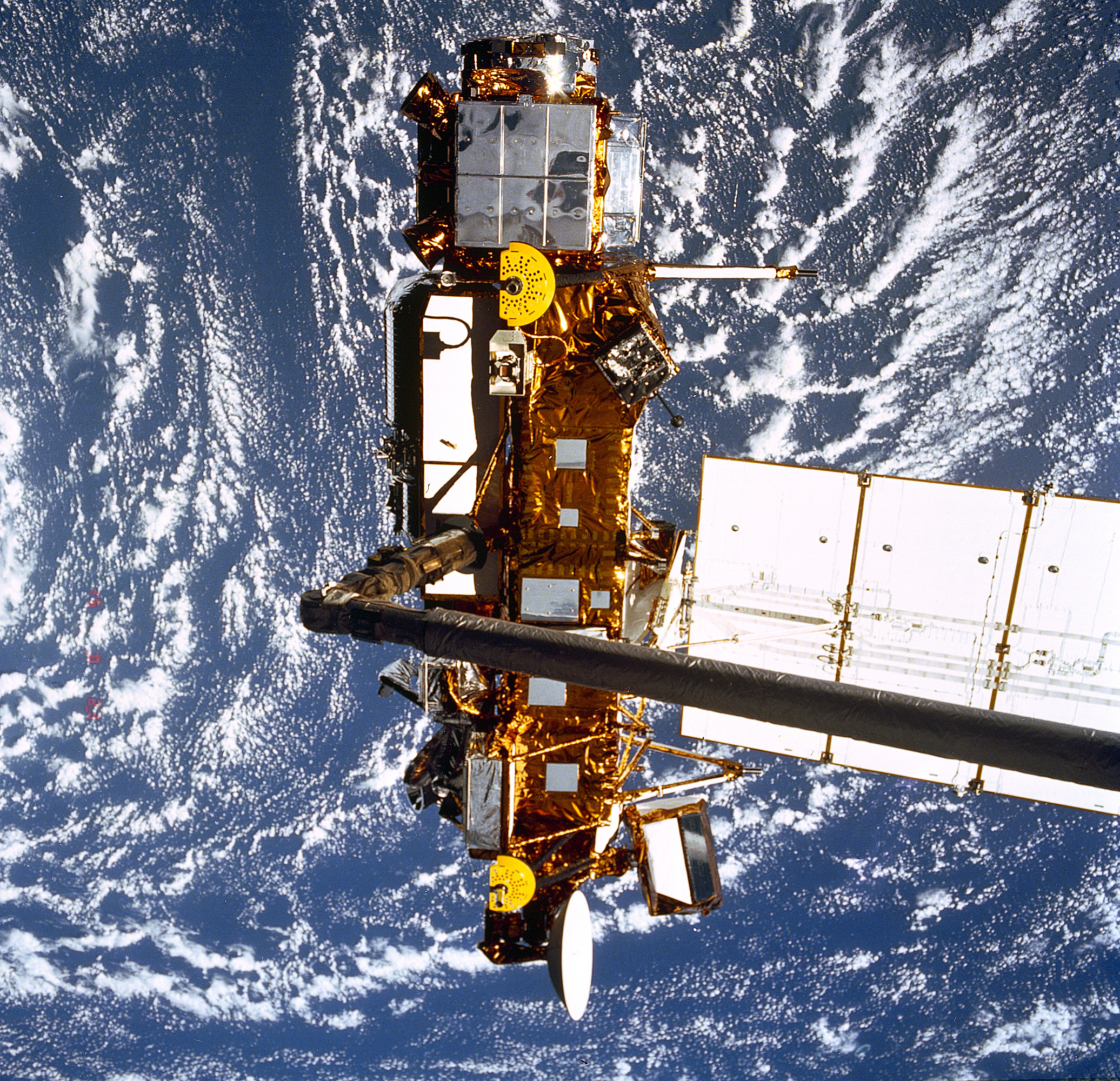 The Upper Atmosphere Research Satellite prior to deployment from the orbiter Discovery, STS-48.